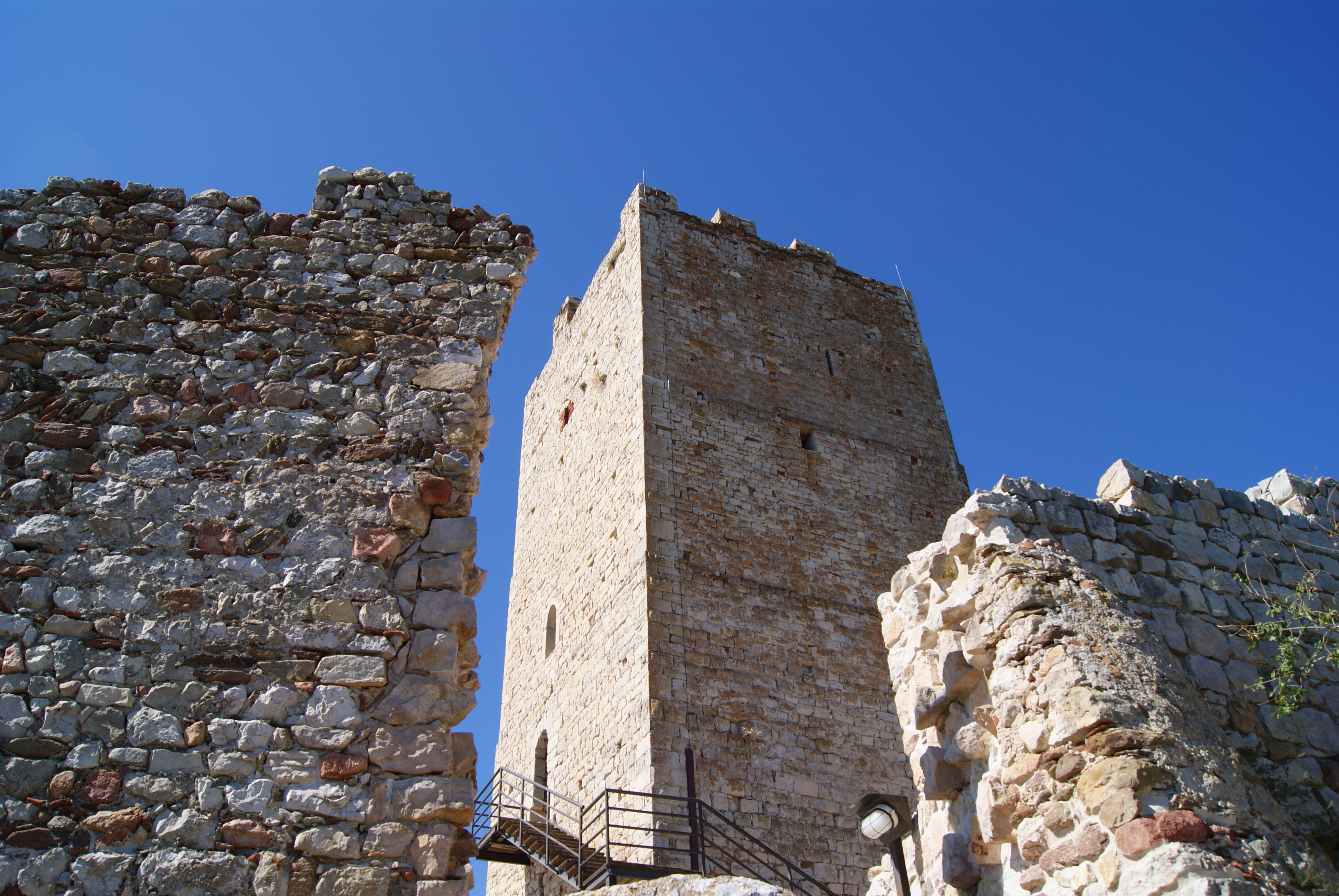 Posada